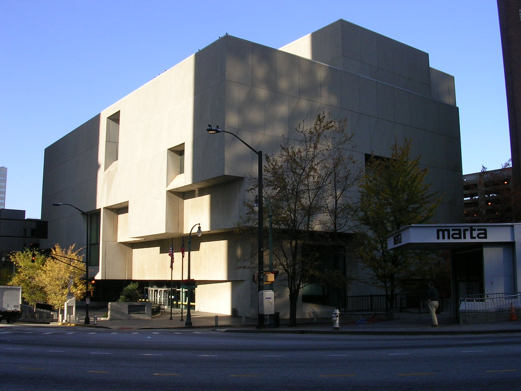 The Central Library building of the Atlanta-Fulton Public Library System, One Margaret Mitchell Square, Atlanta, Georgia, USA. It opened to the public in 1982. 33°45′28″N 84°23′19″W / 33.75778°N 84.38861°W